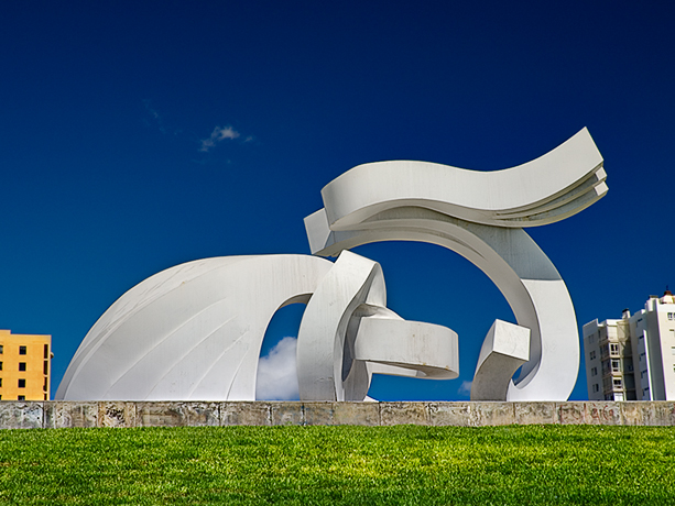 "Lady Harimaguada" (1996, painted weathering steel). Maritime Avenue (Las Palmas de Gran Canaria). Martin Chirino's art work dedicated to Las Palmas de Gran Canaria city. Canary Islands, Spain.